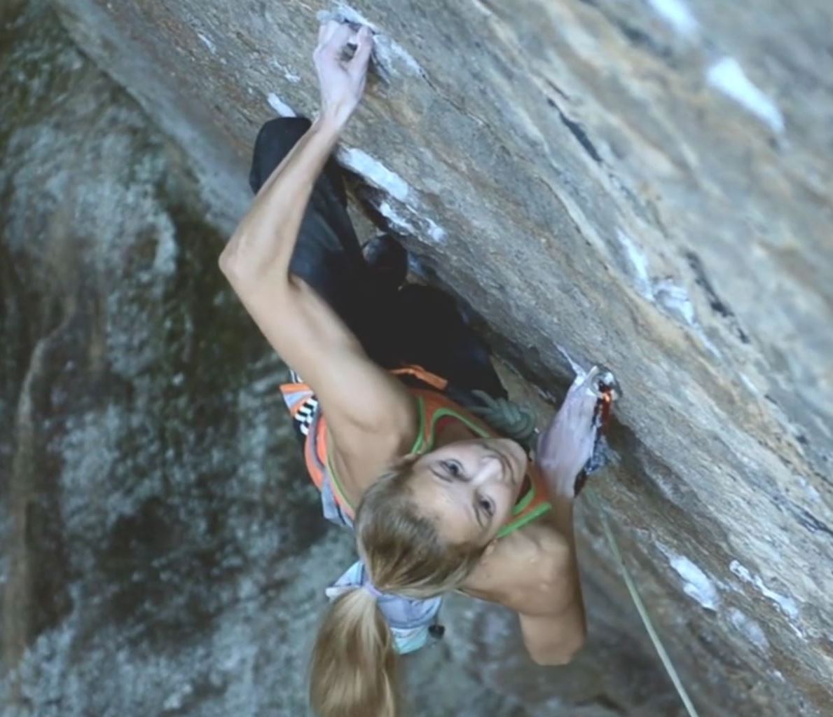 Sasha DiGiulian on Pure Imagination 5.14c route on the main Chocolate Factory wall in Red River Gorge of Kentucky